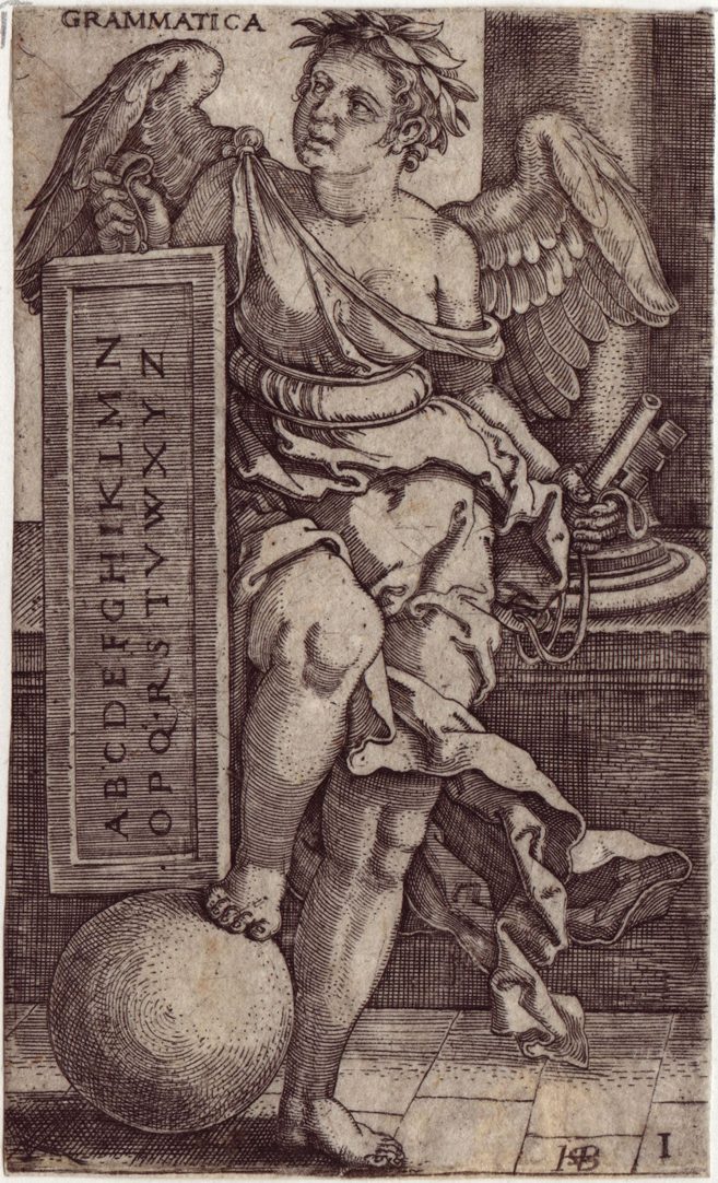 Beham, (Hans) Sebald (1500-1550): Grammatica (B.121, P.123), from The Seven Liberal Arts, P., Holl. 123-129. First state of two.